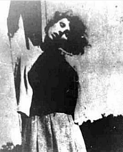 Execution of concentration camp guards at Biskupia Gorka: Becker executed